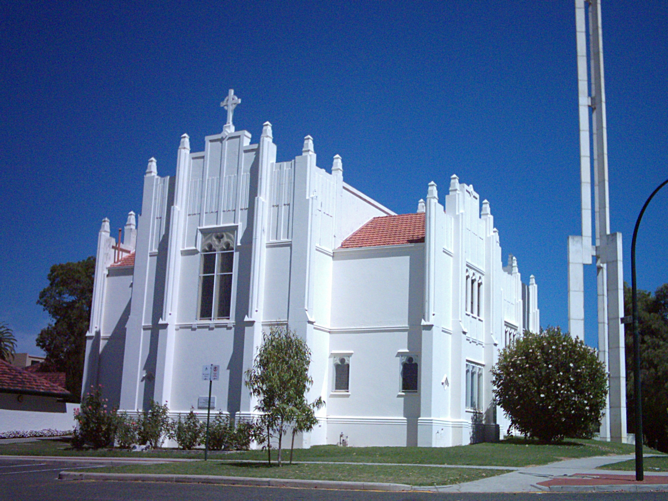 St Marys Church in South Perth, Western Australia